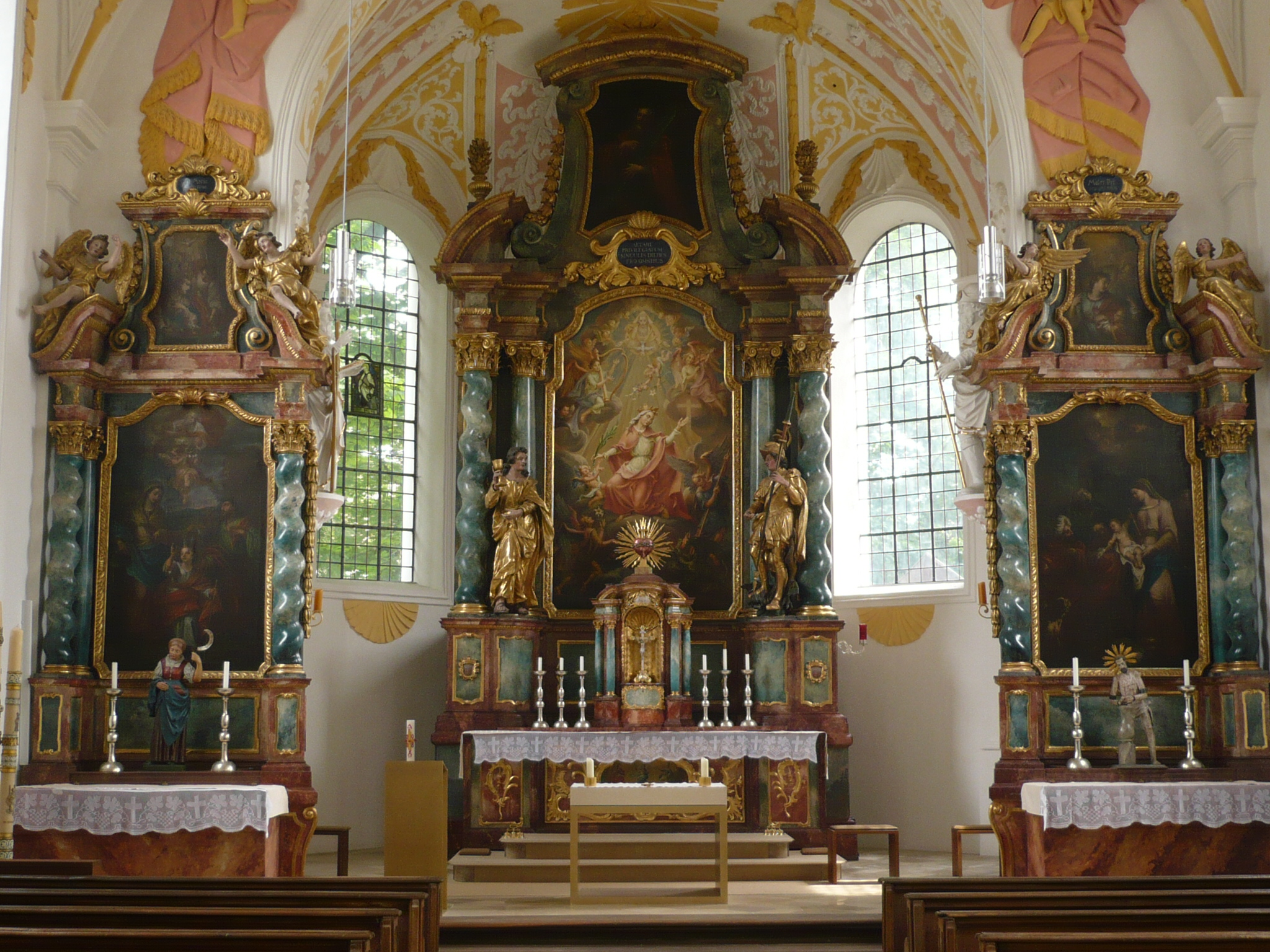 Inside the church St. Margaret in Munich Sendling.